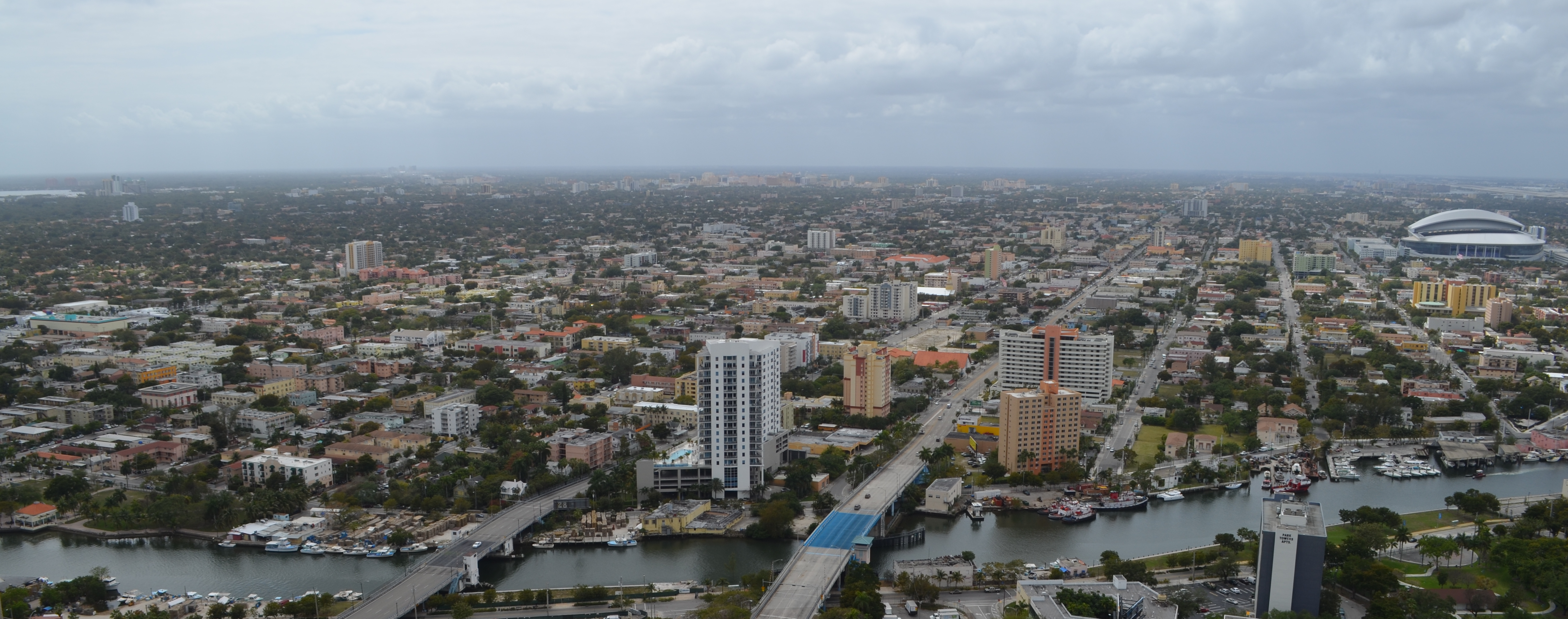 Aerial view of Little Havana Neighborhoods of Miami. At right is Marlins Park, in the background Coral Gables skyline can be seen, to the very left is Coconut Grove.